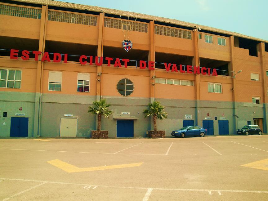 Ciutat de Valencia